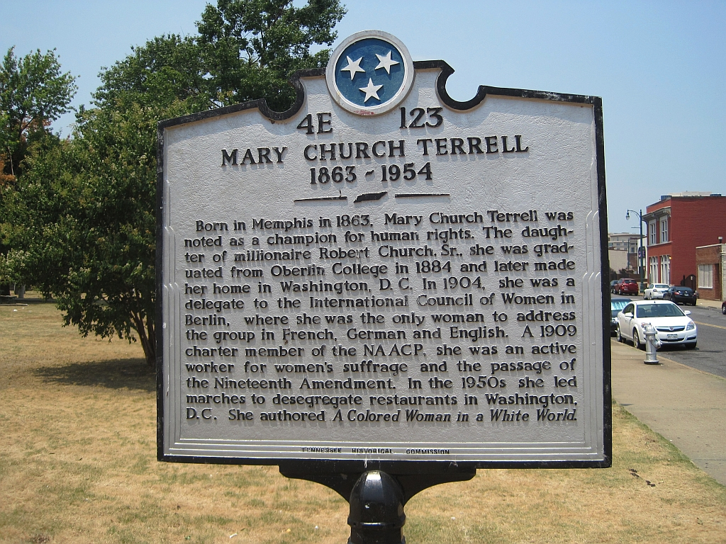 Robert Church Park on Beale Street in Memphis, Tennessee Mary Church Terrell historical marker